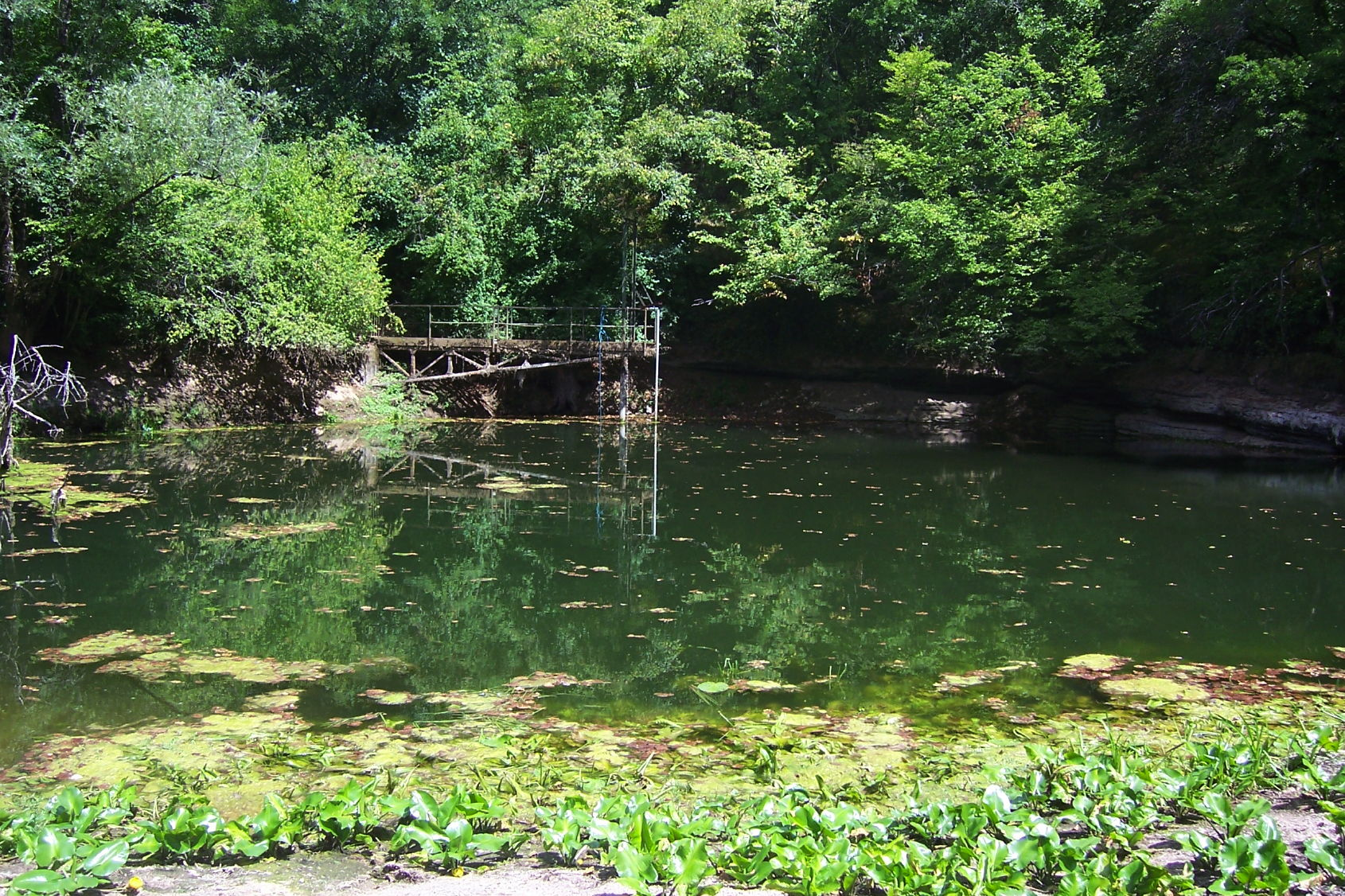 Resurgence of river Ouysse near the town of Rocamadour at Cabouy.